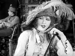 Silent actress Katherine Grant poses in the black and white short film Under Two Jags (1923).